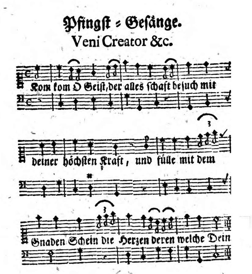 "Komm, komm, o Geist, der alles schafft", German translation of Veni Creator Spiritus in the second edition of Heinrich Lindenborn's Gesangbuch Tochter Sion (1741, 2/1755), the melody would later be used for Heinrich Bone's Komm, Schöpfer Geist, kehr bei uns ein. Melody with figured bass.